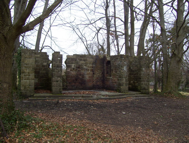 The War Shrine in Avenue Park was built in 1917 by John Willis Fleming in memory of his son Richard and other men of North Stoneham killed in action in the First World War. A nearby sign gives fuller details.